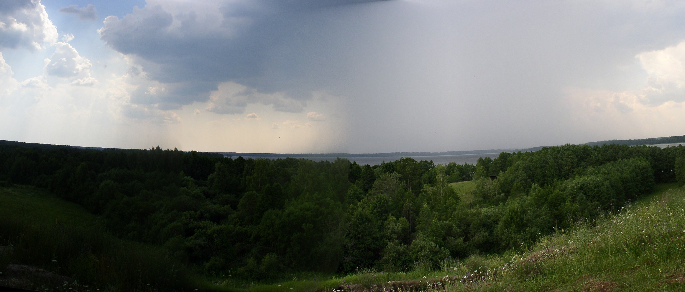 View on Osyno Lake. Sebezh National Park, Russia.